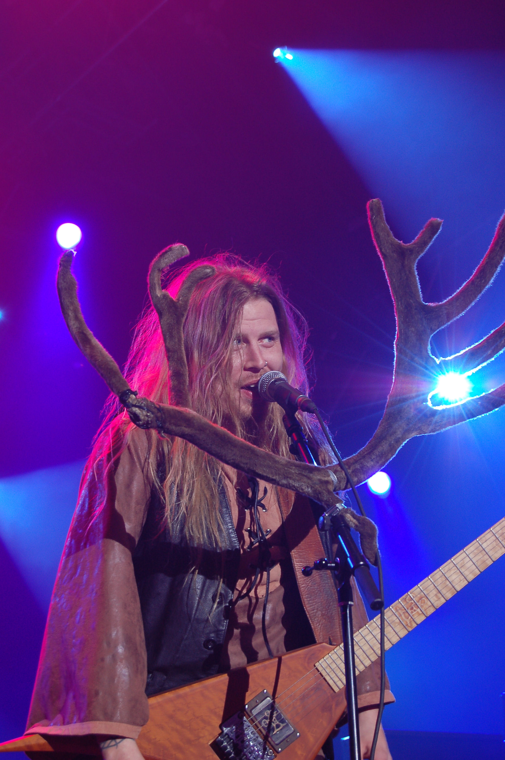 Jonne Järvelä from Korpiklaani during Metalmania 2007 festival